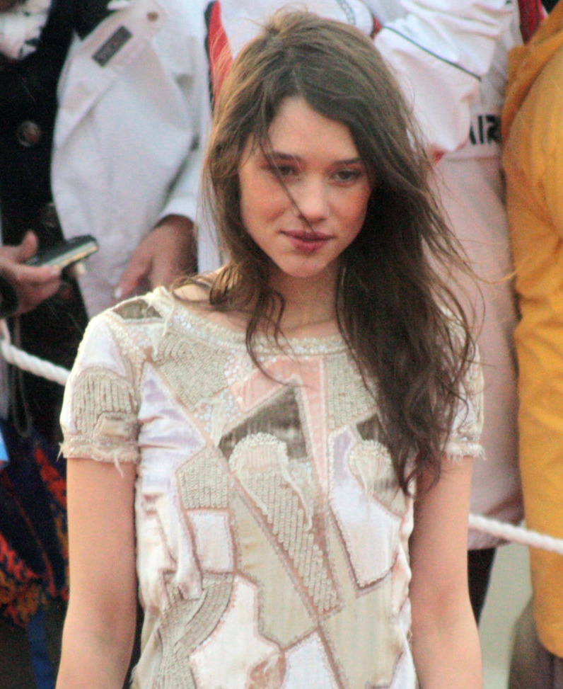 Astrid Bergès-Frisbey in 2011